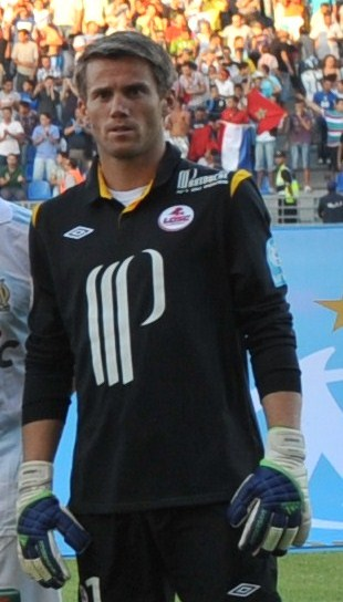 Mickaël Landreau playing 2011 Trophée des champions.